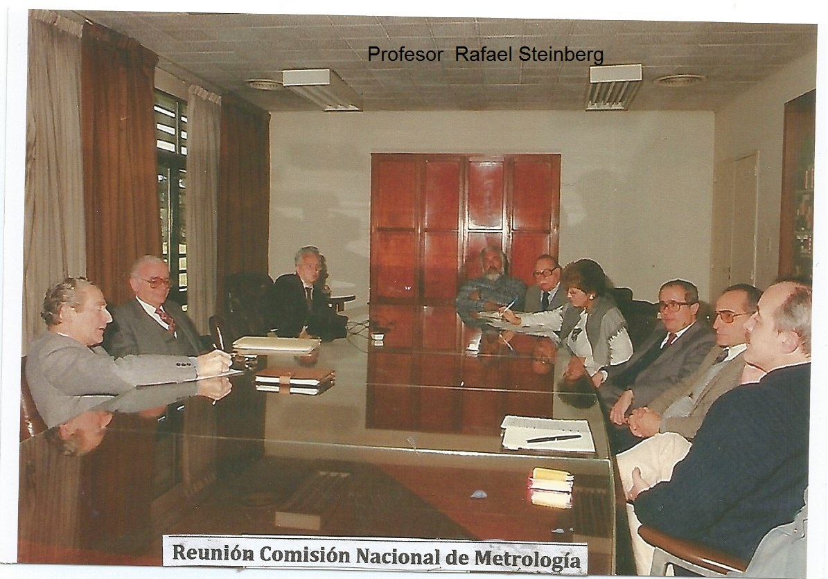 Rafael Steinberg Meeting of National Commission for Metrology (Argentina)